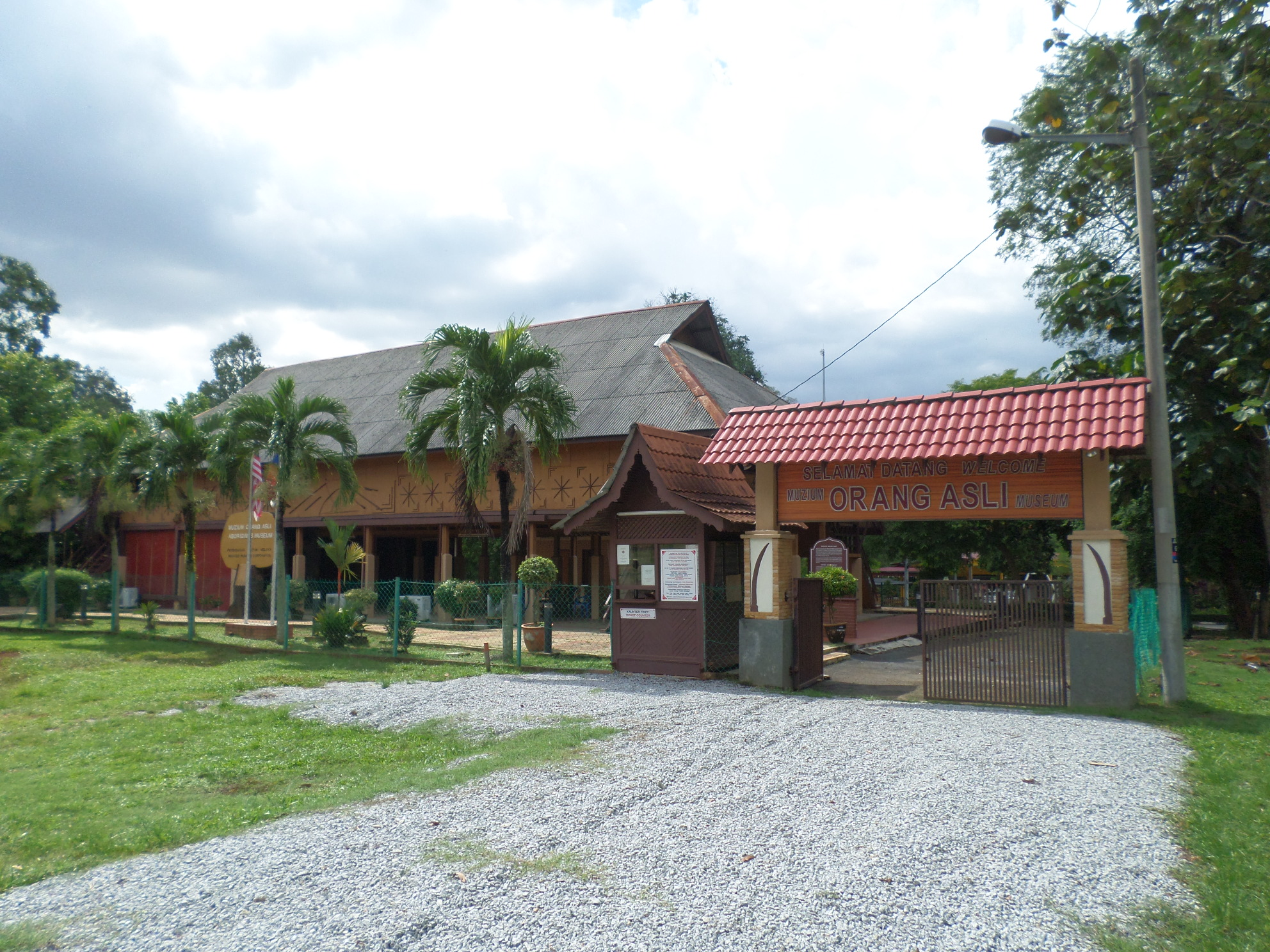 Aborigines Museum, Ayer Keroh, Central Melaka, Melaka, MalaysiaBahasa Melayu: Muzium Orang Asli, Ayer Keroh, Melaka Tengah, Melaka, Malaysia